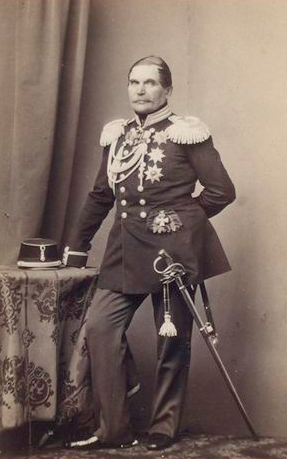 Dolgorukov, Vasily Andreyevich (1803 -1868) russian General.